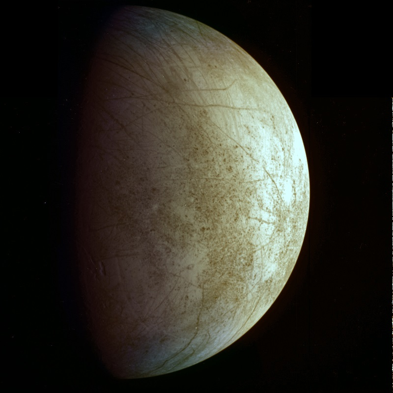 This image, using data from NASA's Galileo mission, shows the first detection of clay-like minerals on the surface of Jupiter's moon Europa. The clay-like minerals appear in blue in the false-color patch of data from Galileo's Near-Infrared Mapping Spectrometer. Surfaces richer in water ice appear in red. The background image is a mosaic of images from Galileo's Solid State Imaging system in the colors that human eyes would see. Scientists think an asteroid or comet impact could have delivered the clay-type minerals to Europa because these minerals are commonly found in these primitive celestial bodies. These kinds of asteroids and comets also typically carry organic compounds.